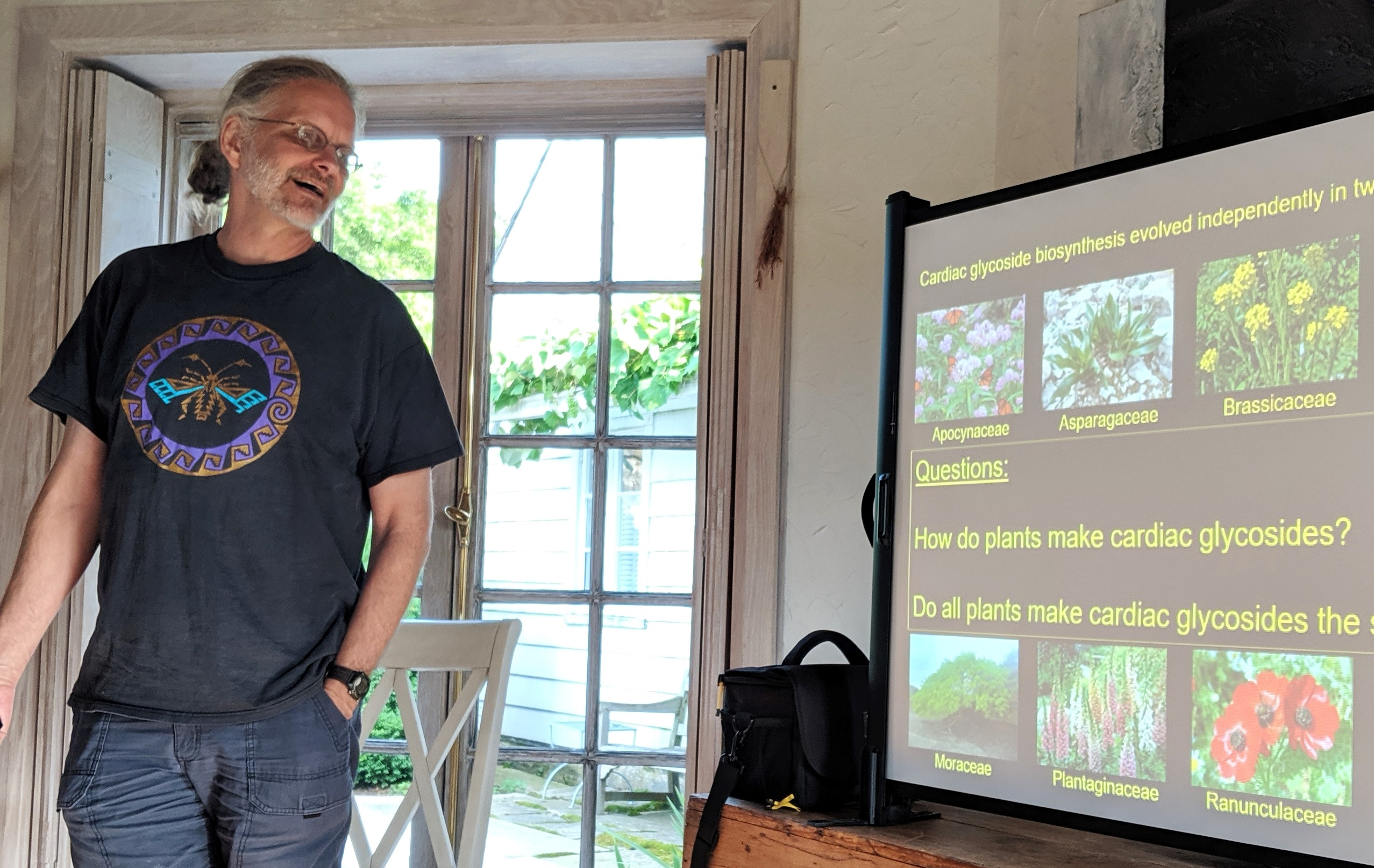 Prof. Jander giving a lecture on evolution of cardiac glycosides in plants